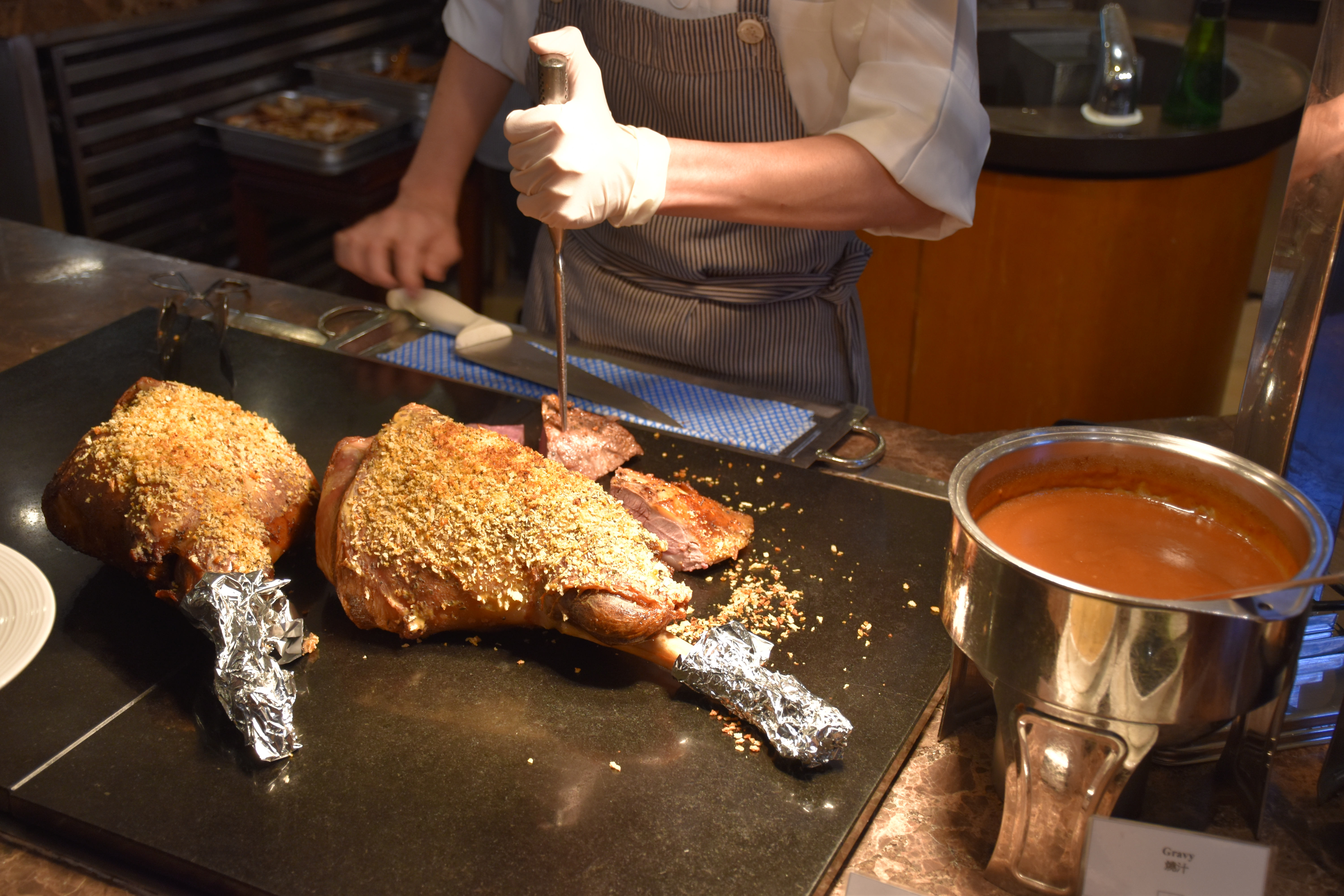 Lamb leg from buffet lunch at international buffet restaurant in royal garden hotel in tsim sha tsui